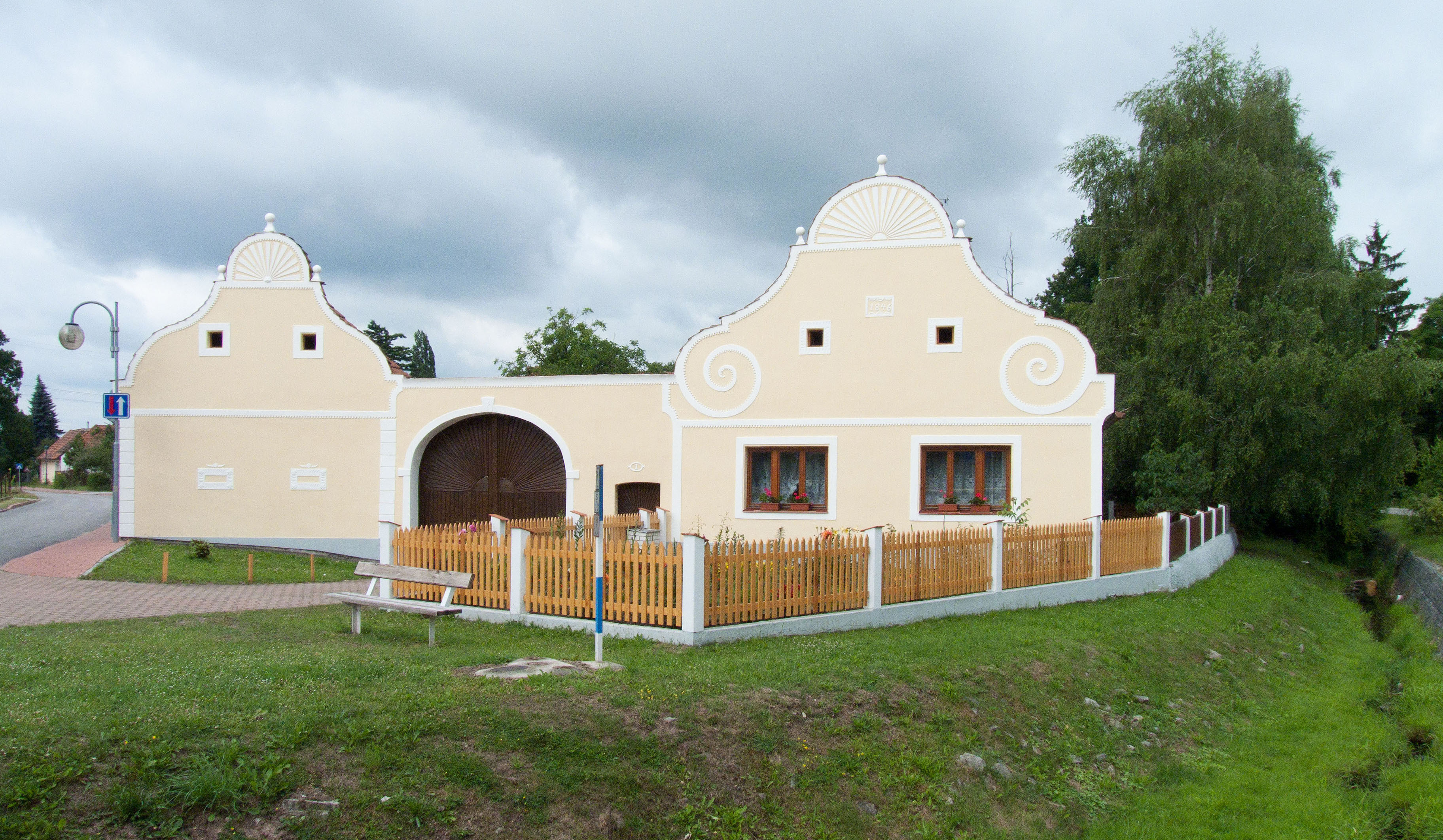 House No 1 in the village of Úsilné, České Budějovice District, Czech Republic and the Stoka creek running alongside of it.